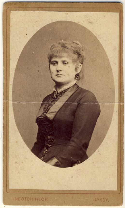 Nestor Heck - Veronica Micle (1850-1889), Iaşi, owner: National Library of Romania.